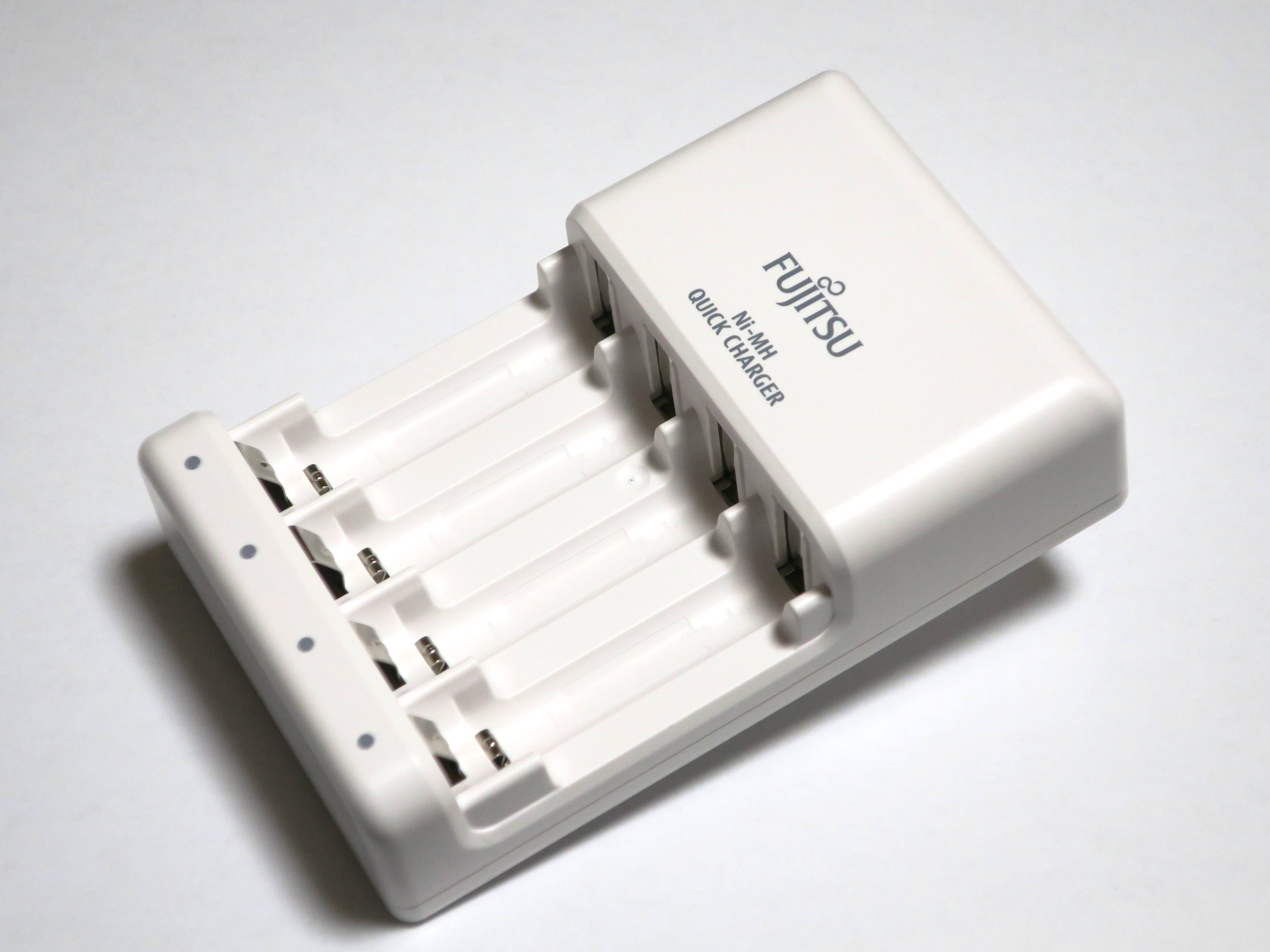 Fujitsu FDK FCT344F-JP(FX) Ni-MH AA or AAA battery quick charger.